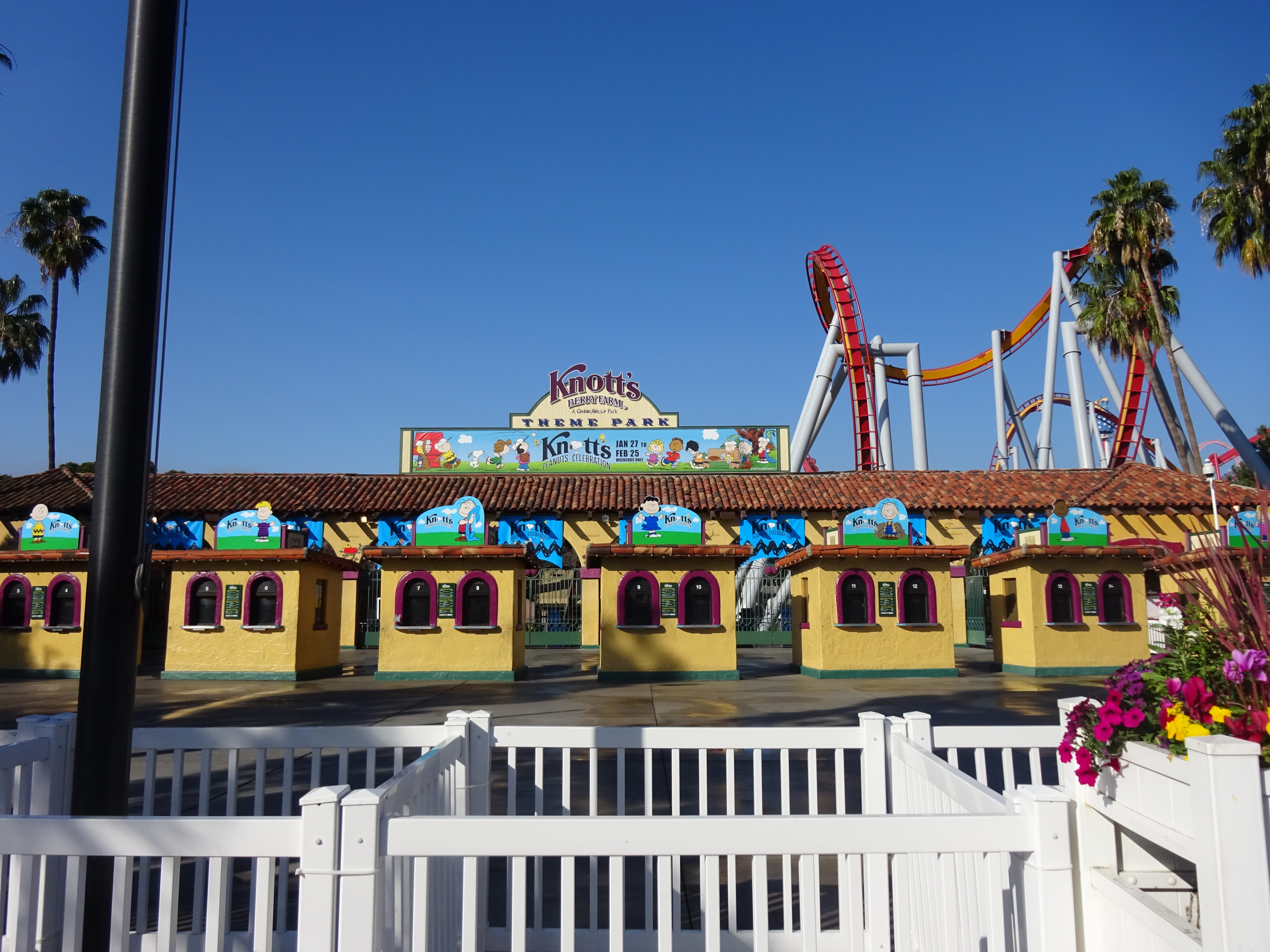 Knotts Entrance